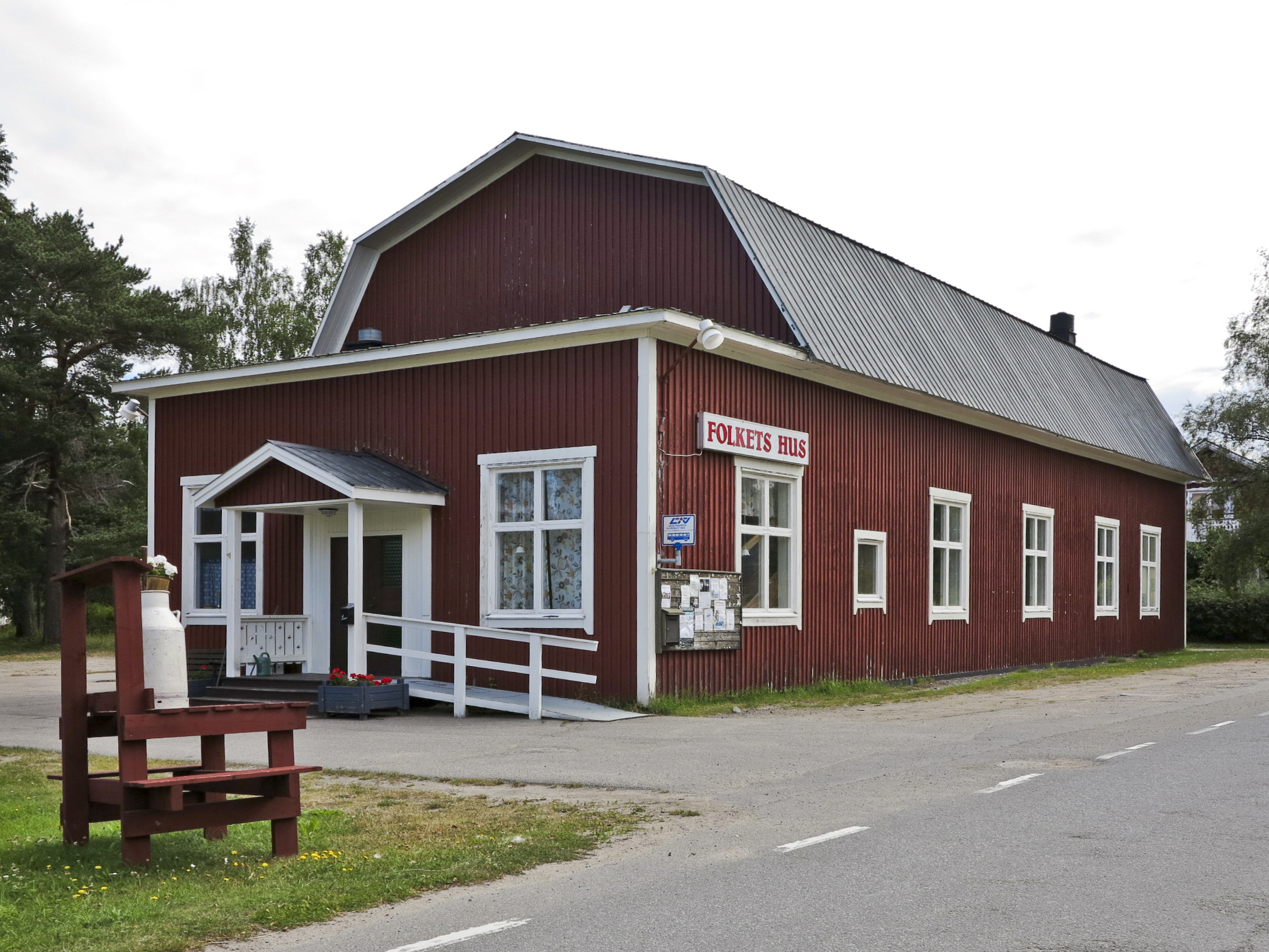 Folkets hus, Seskarö, Haparanda, Sweden